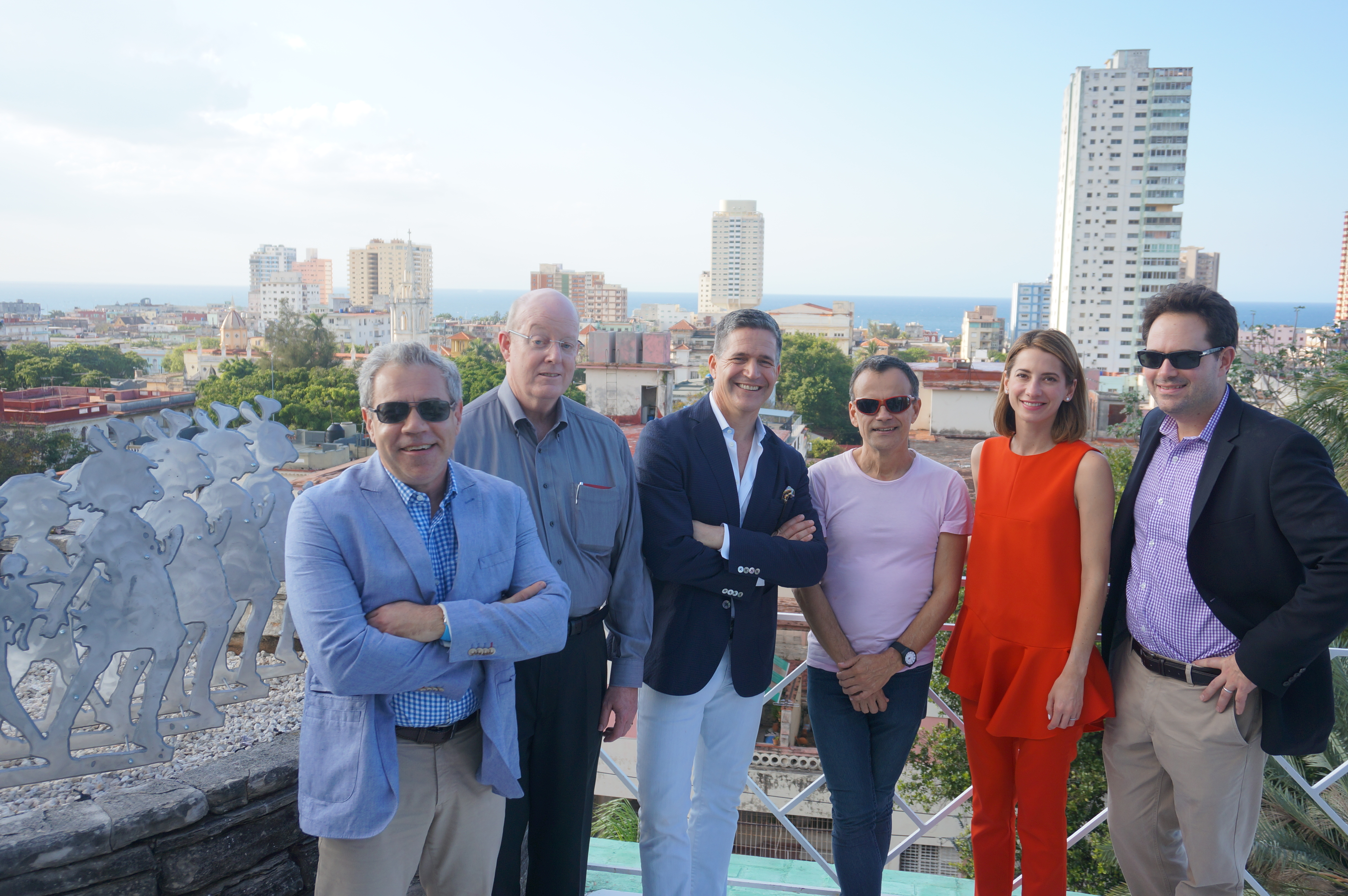 Innovadores Board members (John Caulfield, Miles Spencer) and supporters (Greg Matusky, Hollie and Jack Franke) in Havana, Cuba. (February, 2016)